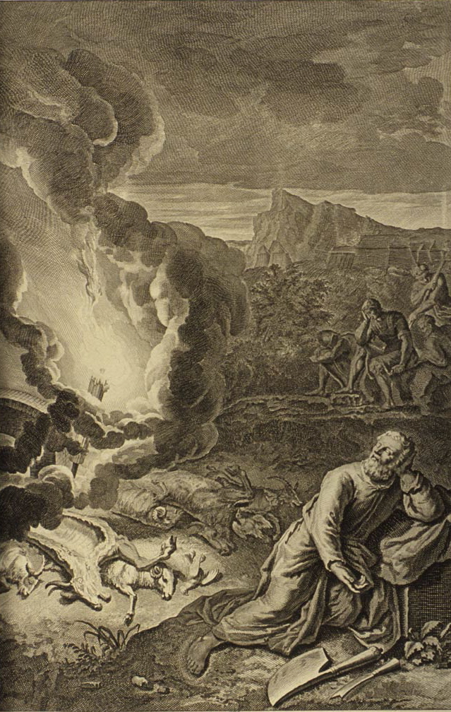 A Deep Sleep Fell Upon Abram and a Horror Seized Him; as in Genesis 15:12: "And when the sun was going down, a deep sleep fell upon Abram; and, lo, an horror of great darkness fell upon him."; illustration from the 1728 Figures de la Bible; illustrated by Gerard Hoet (1648–1733) and others, and published by P. de Hondt in The Hague; image courtesy Bizzell Bible Collection, University of Oklahoma Libraries